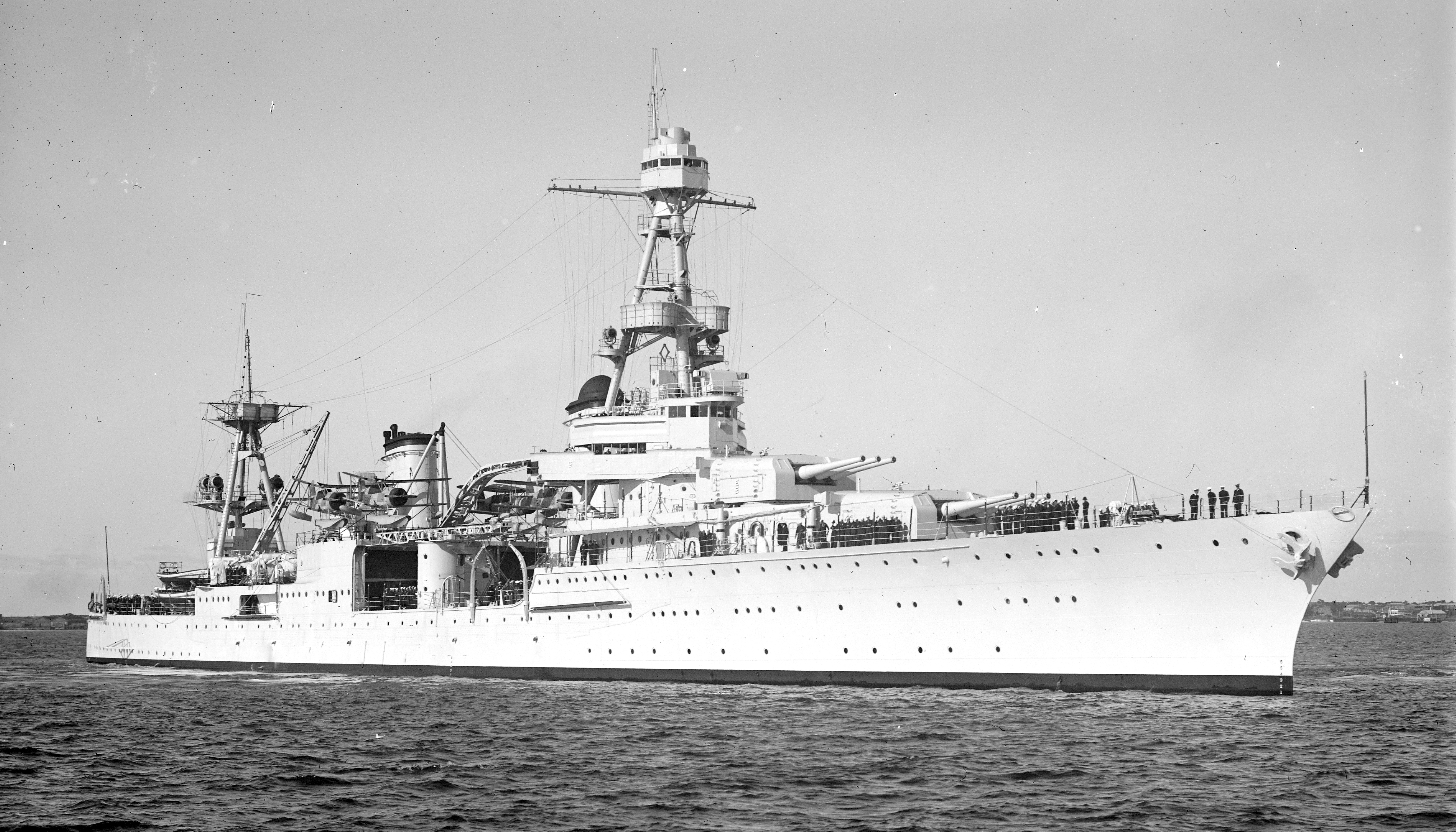 The U.S. Navy heavy cruiser USS Louisville (CA-28) visiting Australia, 2 February 1938.